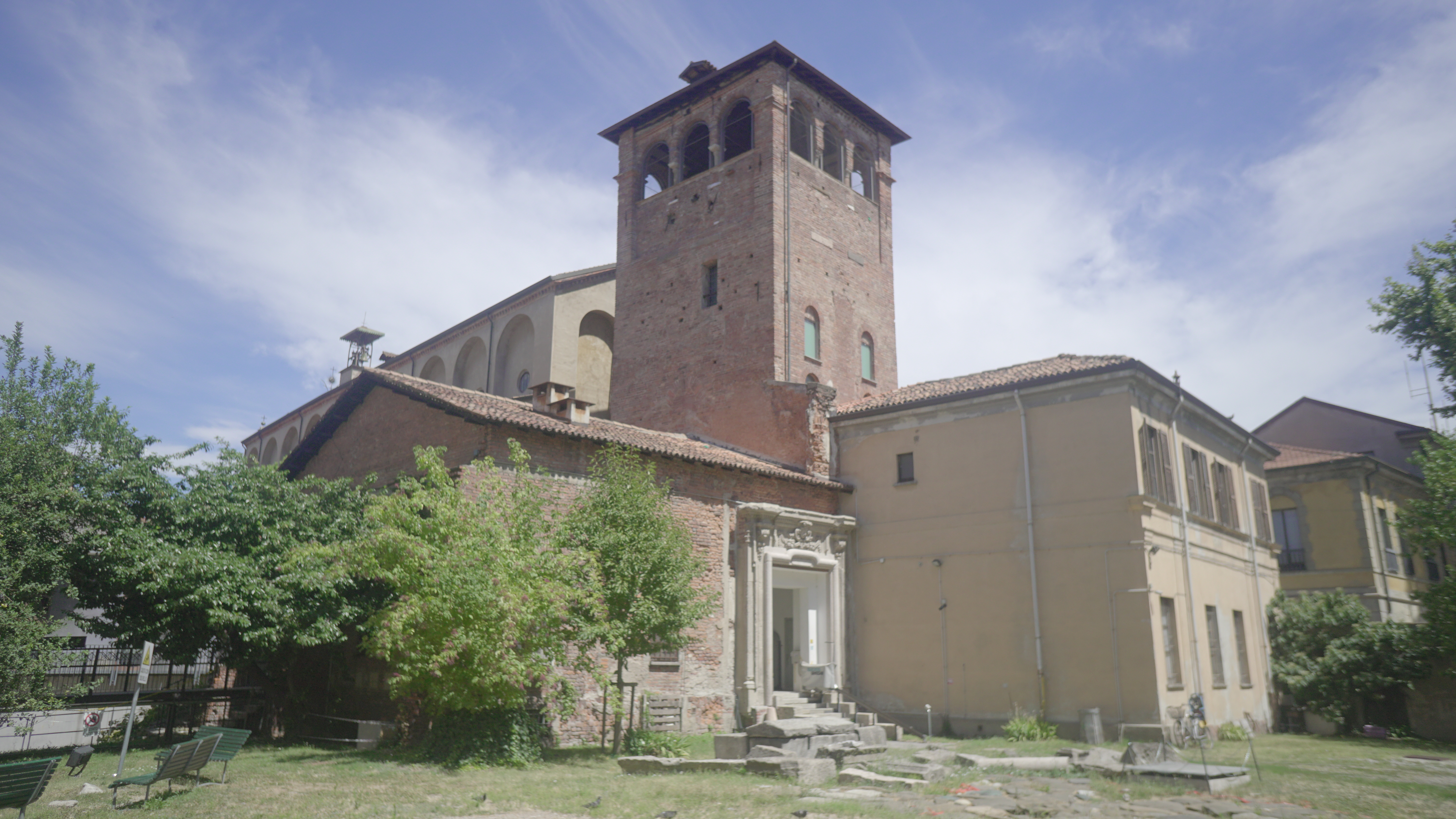 Roman tower inside the Milan Civic Archaeological Museum.